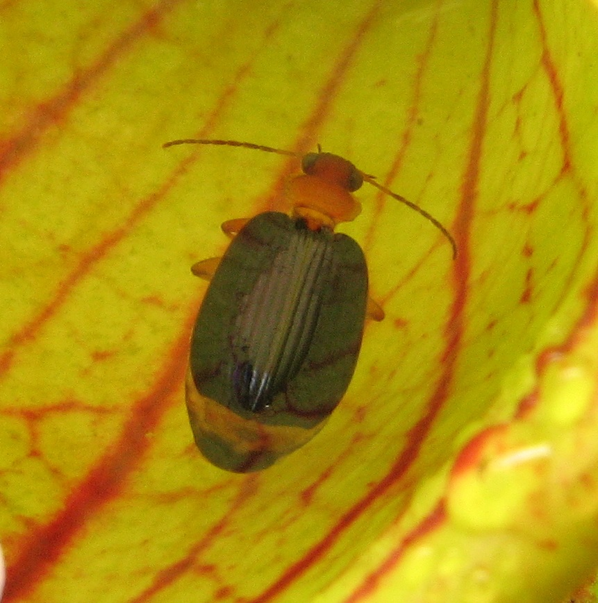 Carabid beetle, Lebia grandis, trapped by pitcher plant. Pennypack Restoration Trust, Montgomery County, Pennsylvania, USA.